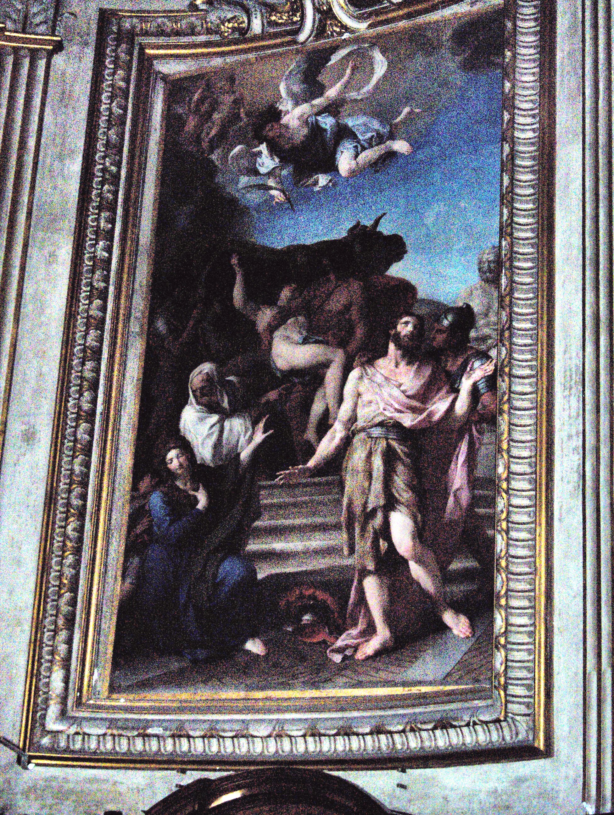 Altarpiece : "The martyrdom of Saint Eustace" by Francesco Ferdinandi (also cllaed : l'Imperiali") in the church Sant'Eustachio, Rome, Italy